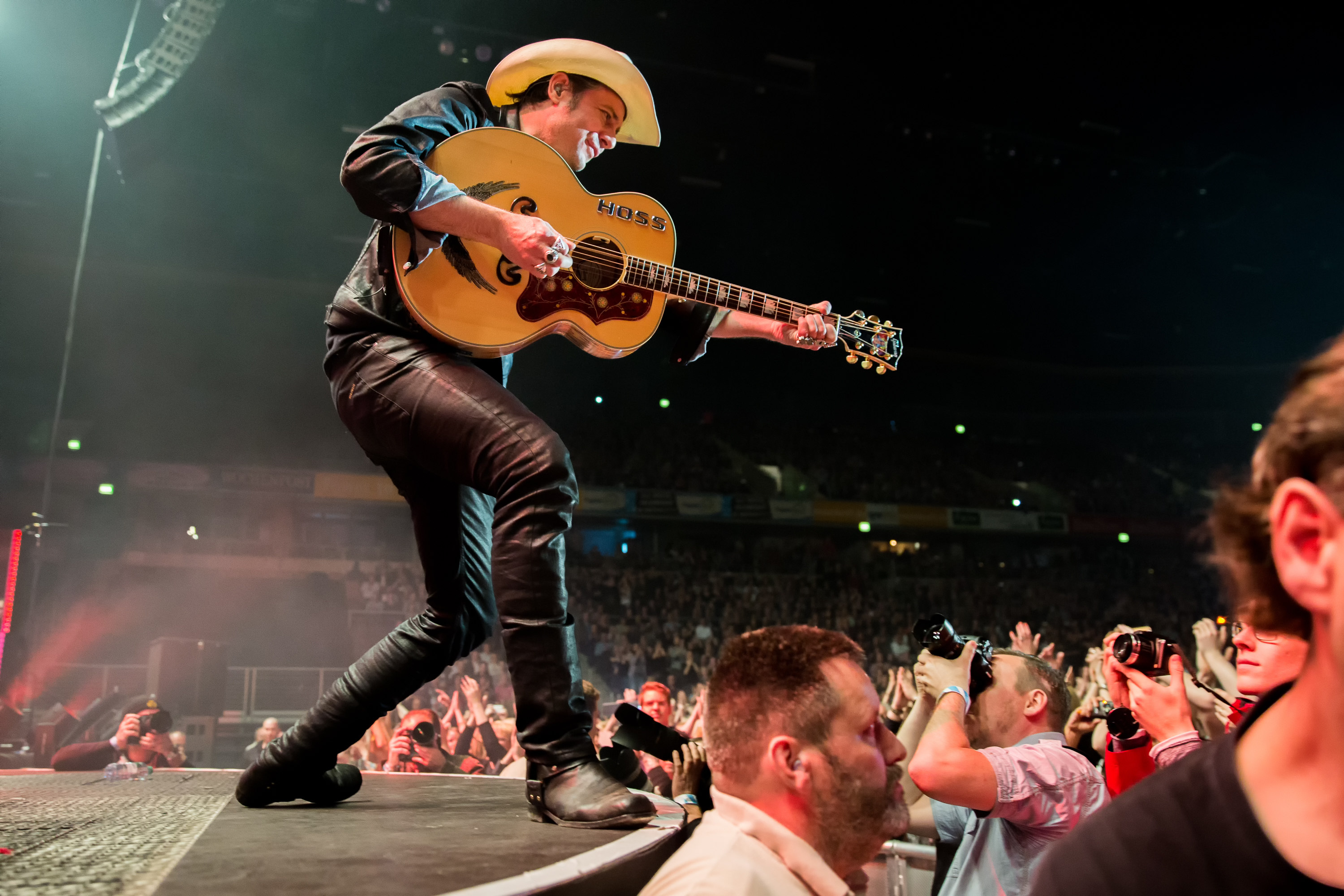 The BossHoss at Arena Show in Koenig Pilsener Arena, Oberhausen, Germany